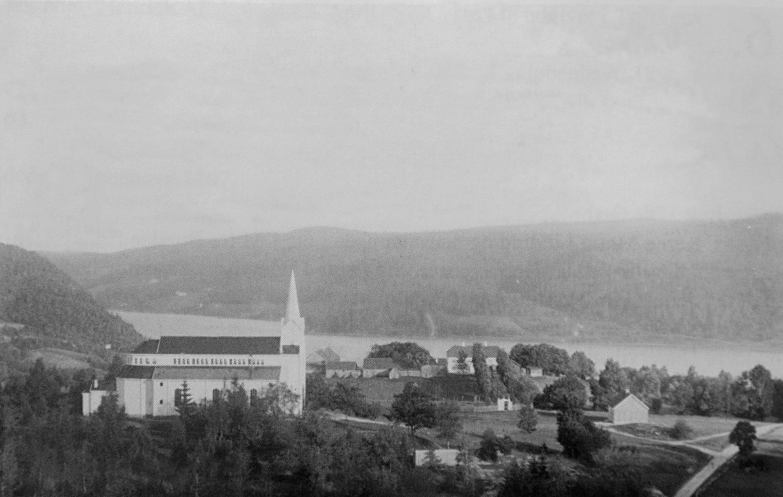 Postcard of Gjerstad church and rectory. Picture from around 1890-95. Church built in 1848. Main building of rectory from 1707.